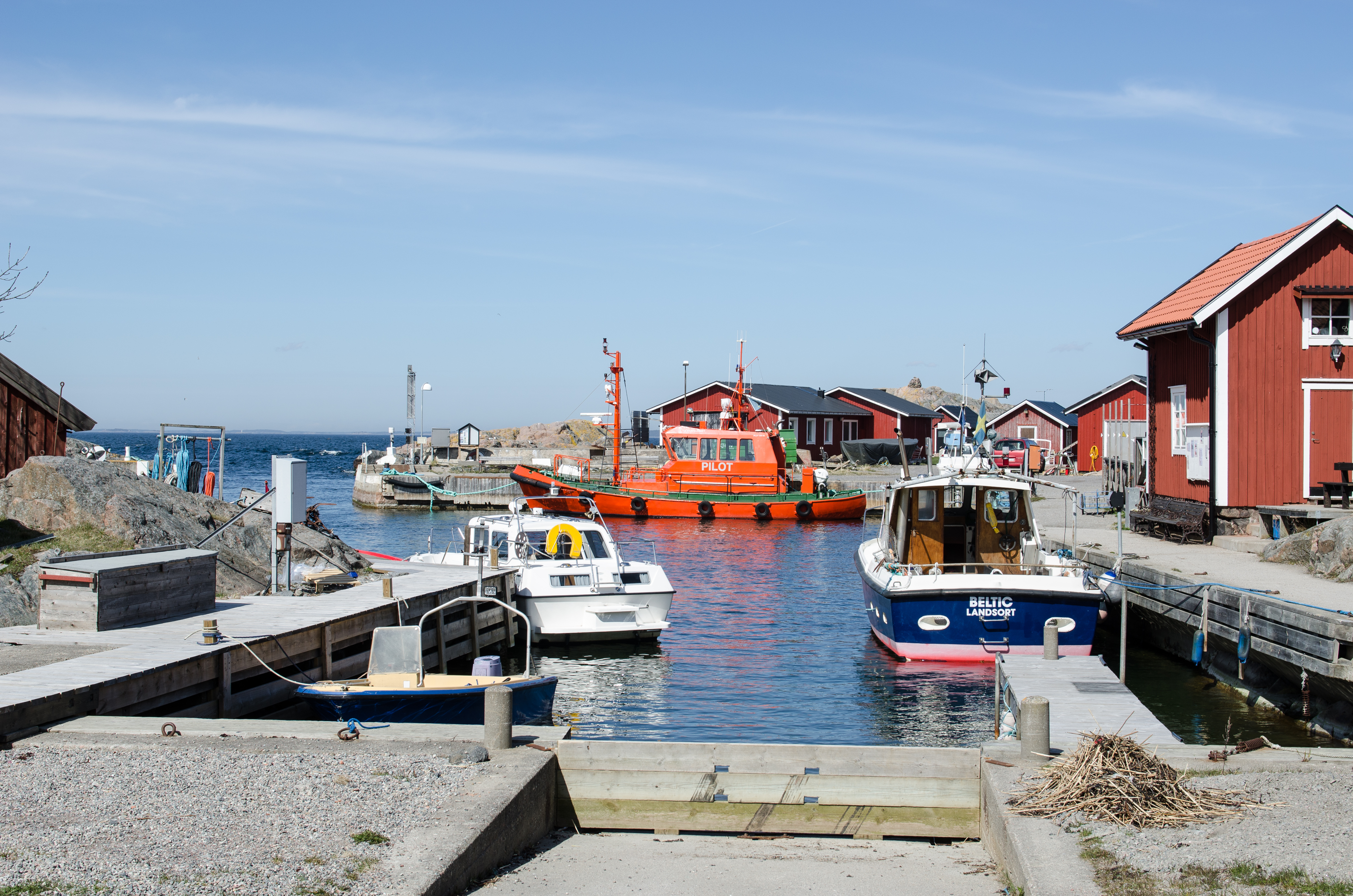 Small habour at Öja island (Landsort), Stockholm archipelago's most southern point.